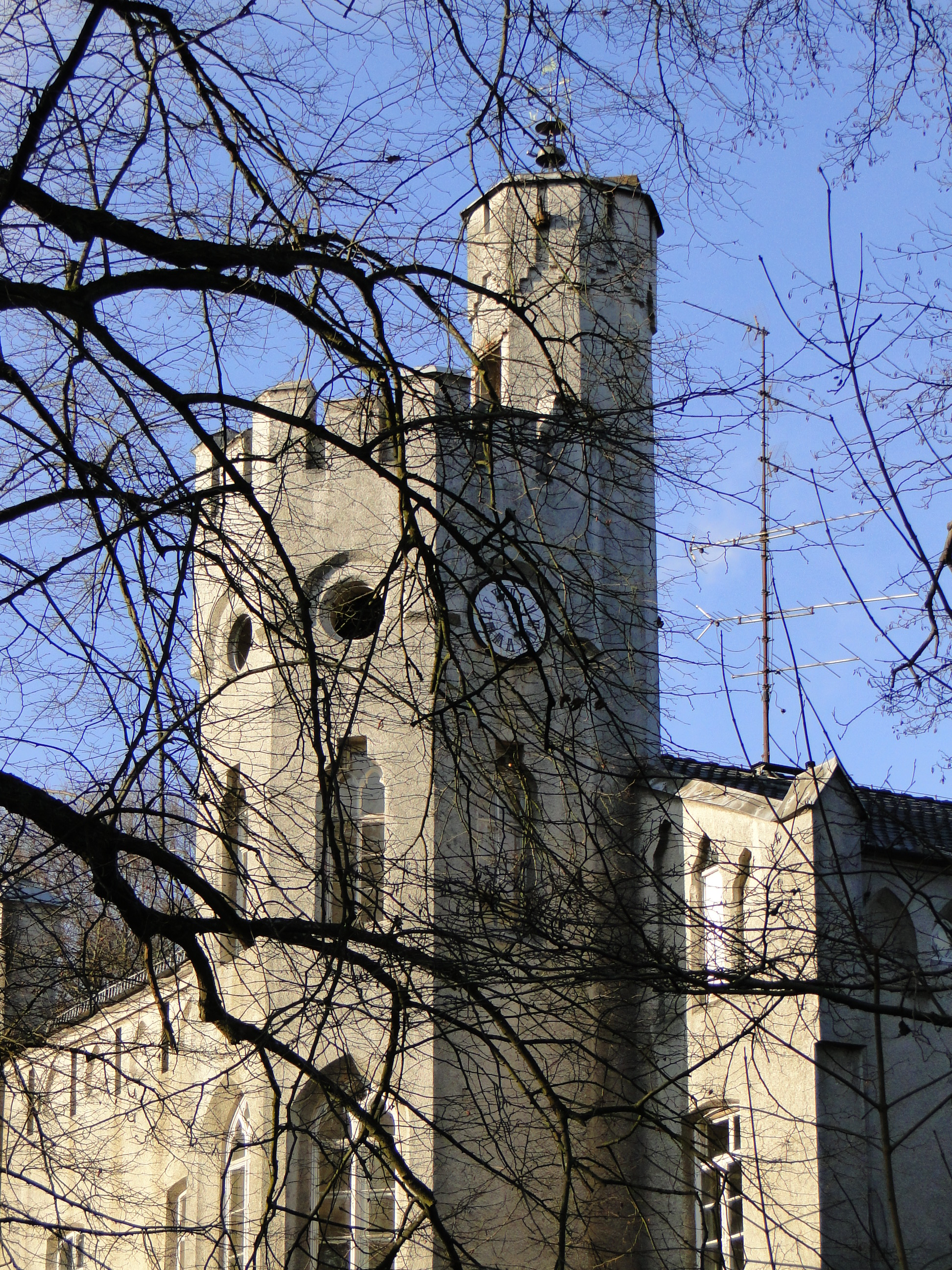 Manor house in Gresse, district Ludwigslust, Mecklenburg-Vorpommern, Germany